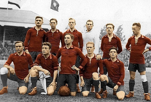 Belgium national football team on 2 September 1920 before their match against Czechoslovakia (colourised picture) Back row, left to right: Armand Swartenbroeks, André Fierens, Emile Hanse, Jean De Bie (goalkeeper), Joseph Musch, Oscar Verbeeck Front row, left to right: Louis Van Hege, Robert Coppée, Mathieu Bragard, Henri Larnoe, Désiré Bastin